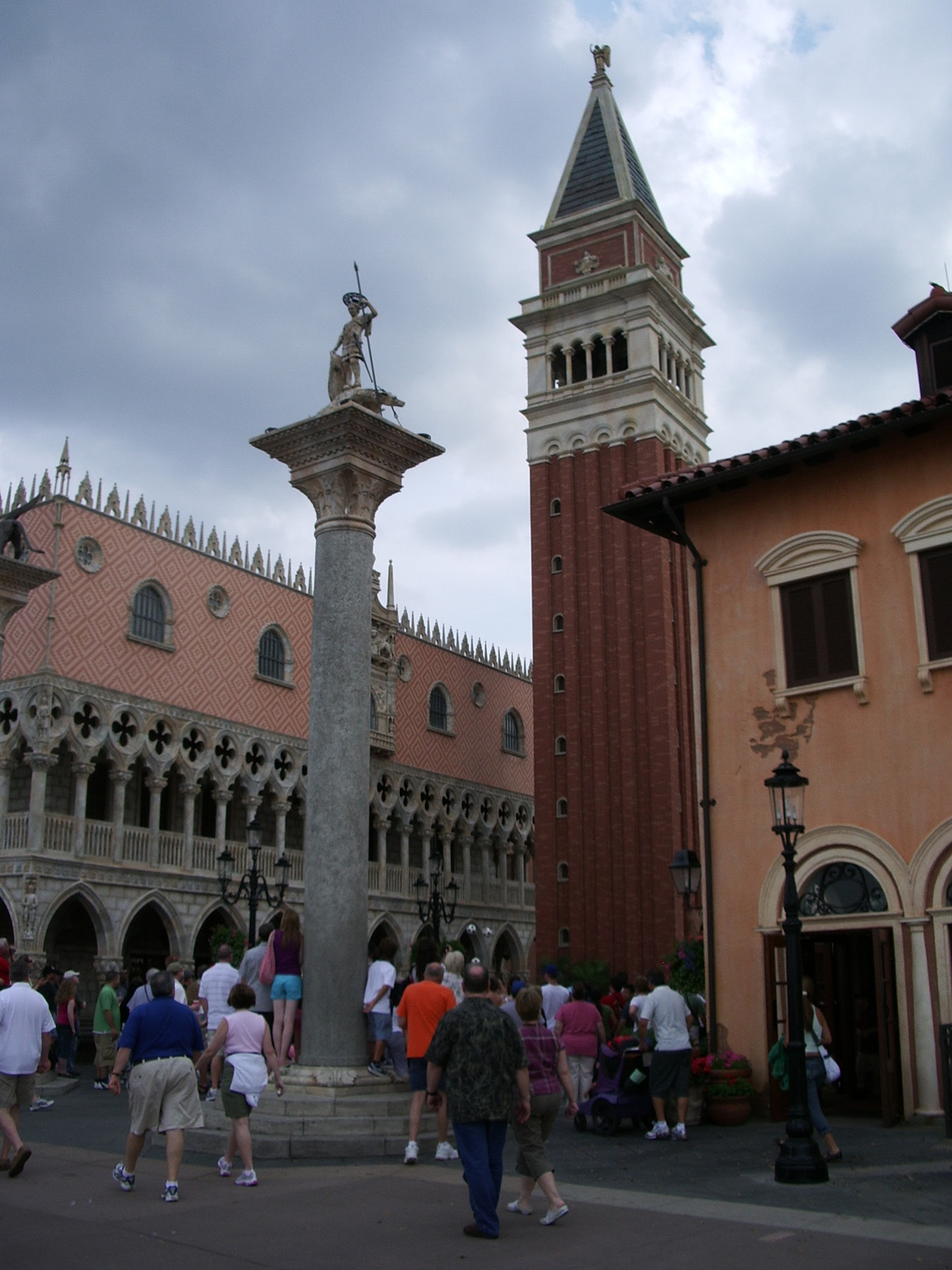 Epcot (Experimental Planned Community of Tomorrow) is the second theme park to open at Walt Disney World, focusing on future technology and world cultures. The back half of Epcot is World Showcase, which deals with cultures of eleven different nations. The Italy showcase is based on Venice and its famed St. Mark's Square (Piazza San Marco). Although I cannot hire a gondolier here, I can eat some pasta and buy an Italian soccer jersey. At this point, I had yet to visit Italy, but about 20 months later, I would finally make my first visit to Italy, and Venice would indeed become my destination.